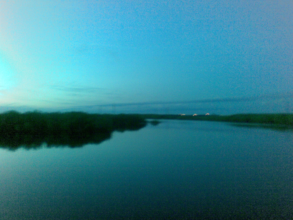 Coast of Mega (Megion, Russia)